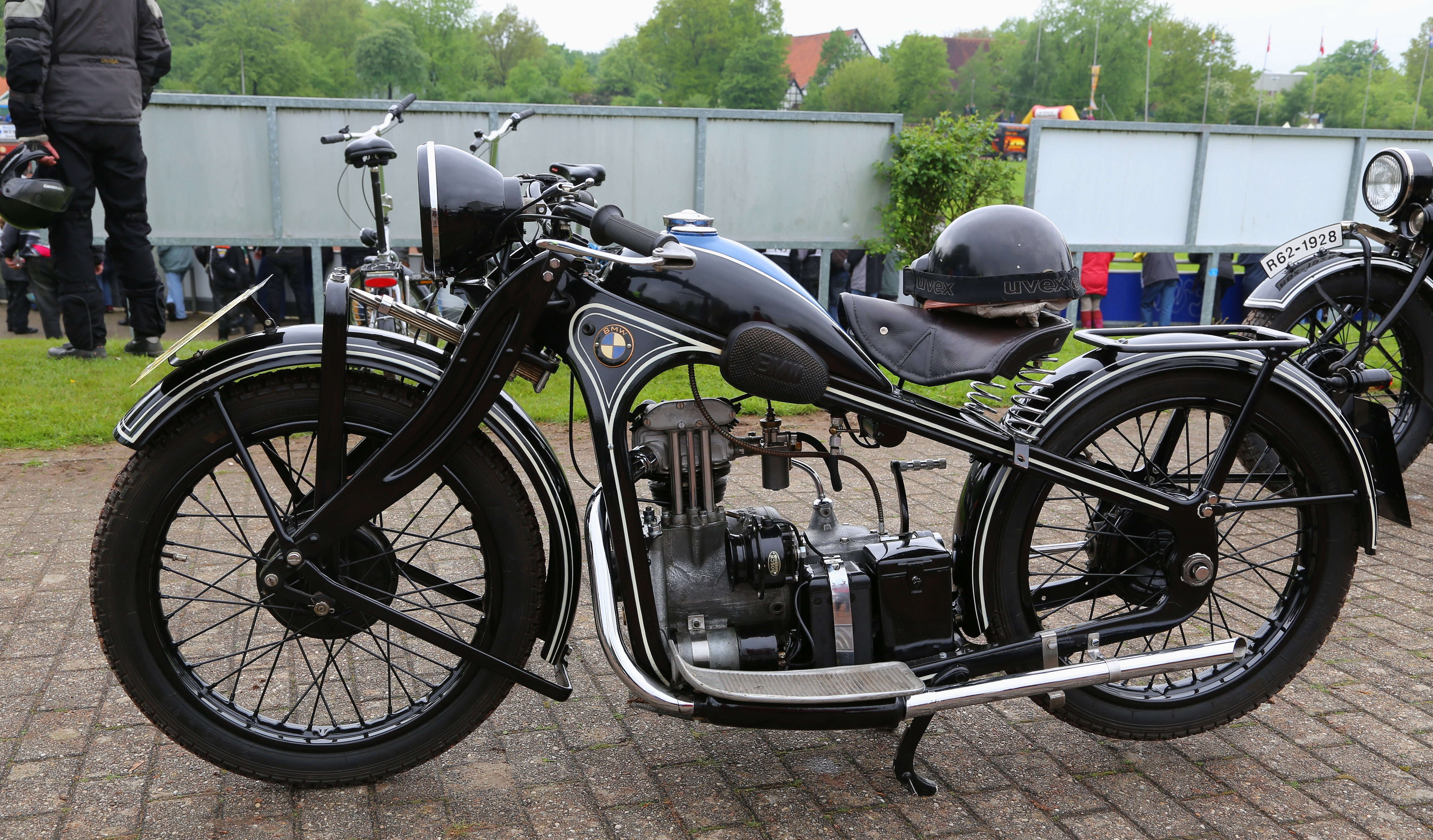 A BMW R2 (1931) on display at the 32nd international constant speedrun in Eastern Stadium (Stadion Ost) during the 33rd International Motorbike Veterans Rally with Münsterland-Trophy in Ibbenbüren, Kreis Steinfurt, North Rhine-Westphalia, Germany.